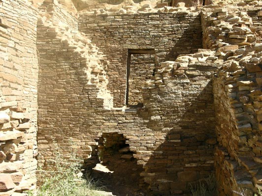 An interior view of Wijiji, a ruin at the southern end of Chaco Canyon (New Mexico, United States).